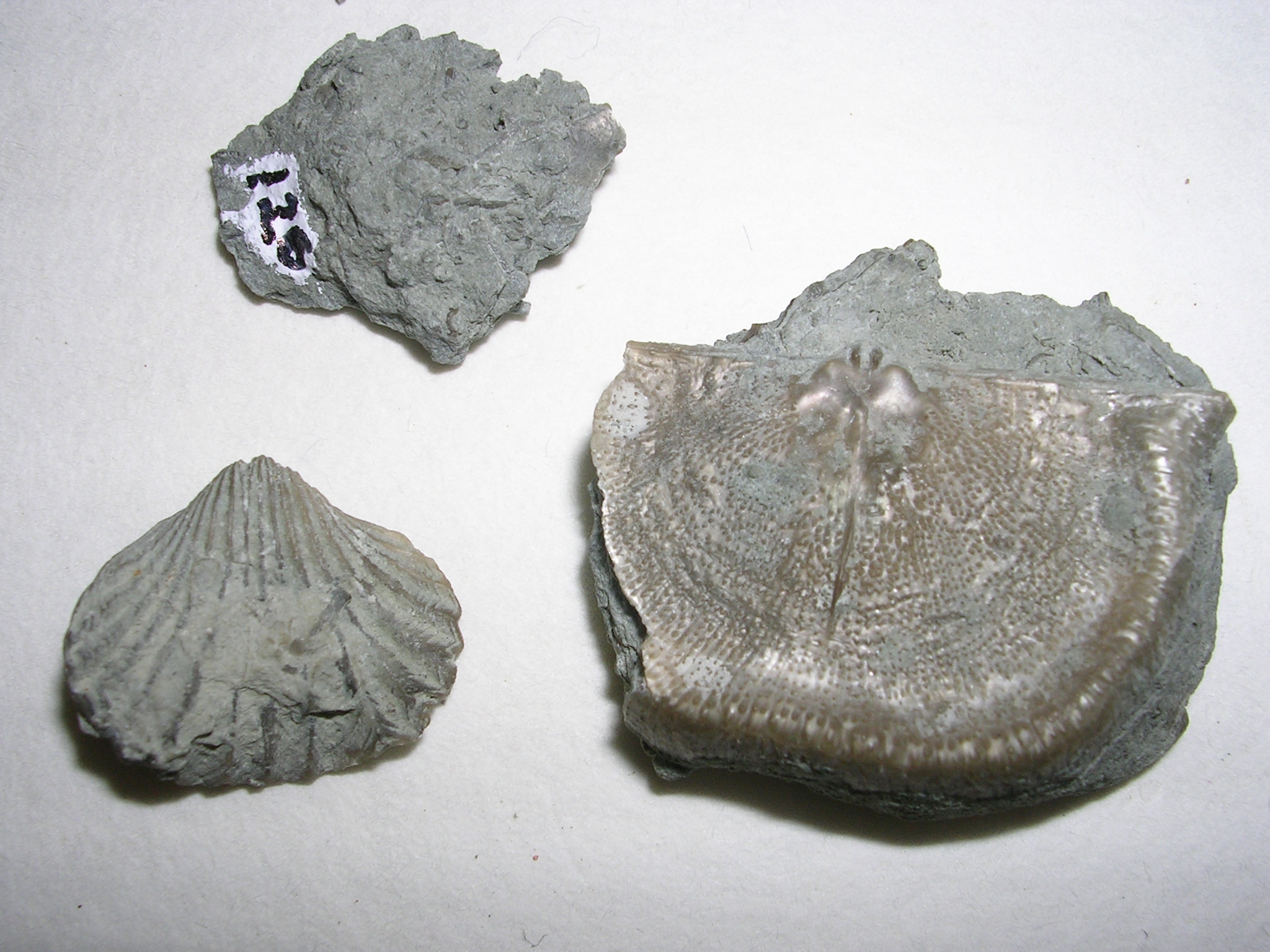 Leptaena sp. & Rhynchonella sp. fossils in a laboratory of practices of the Faculty of Sciences of the University of Corunna.